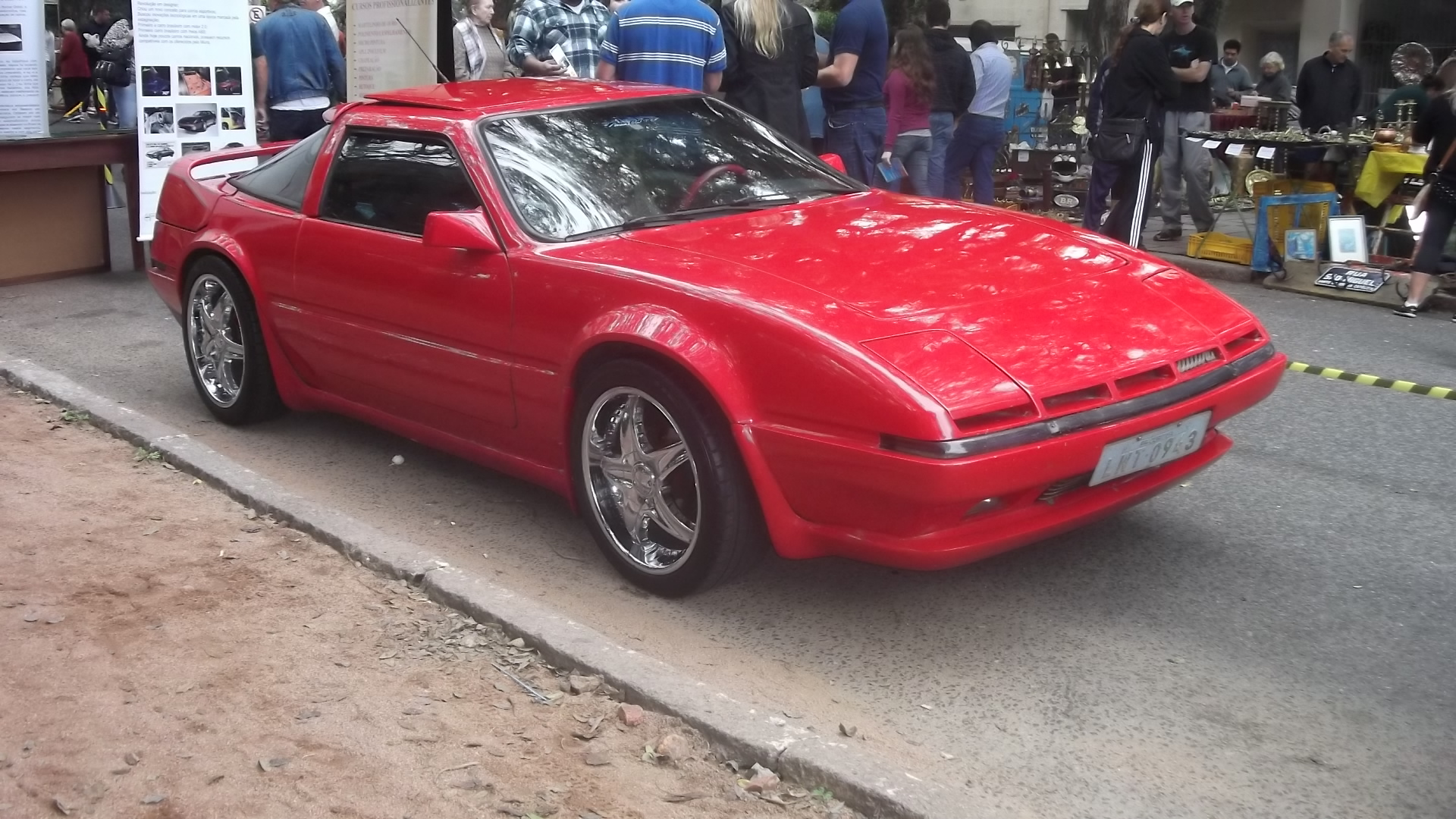 1987-1990 Miura X8